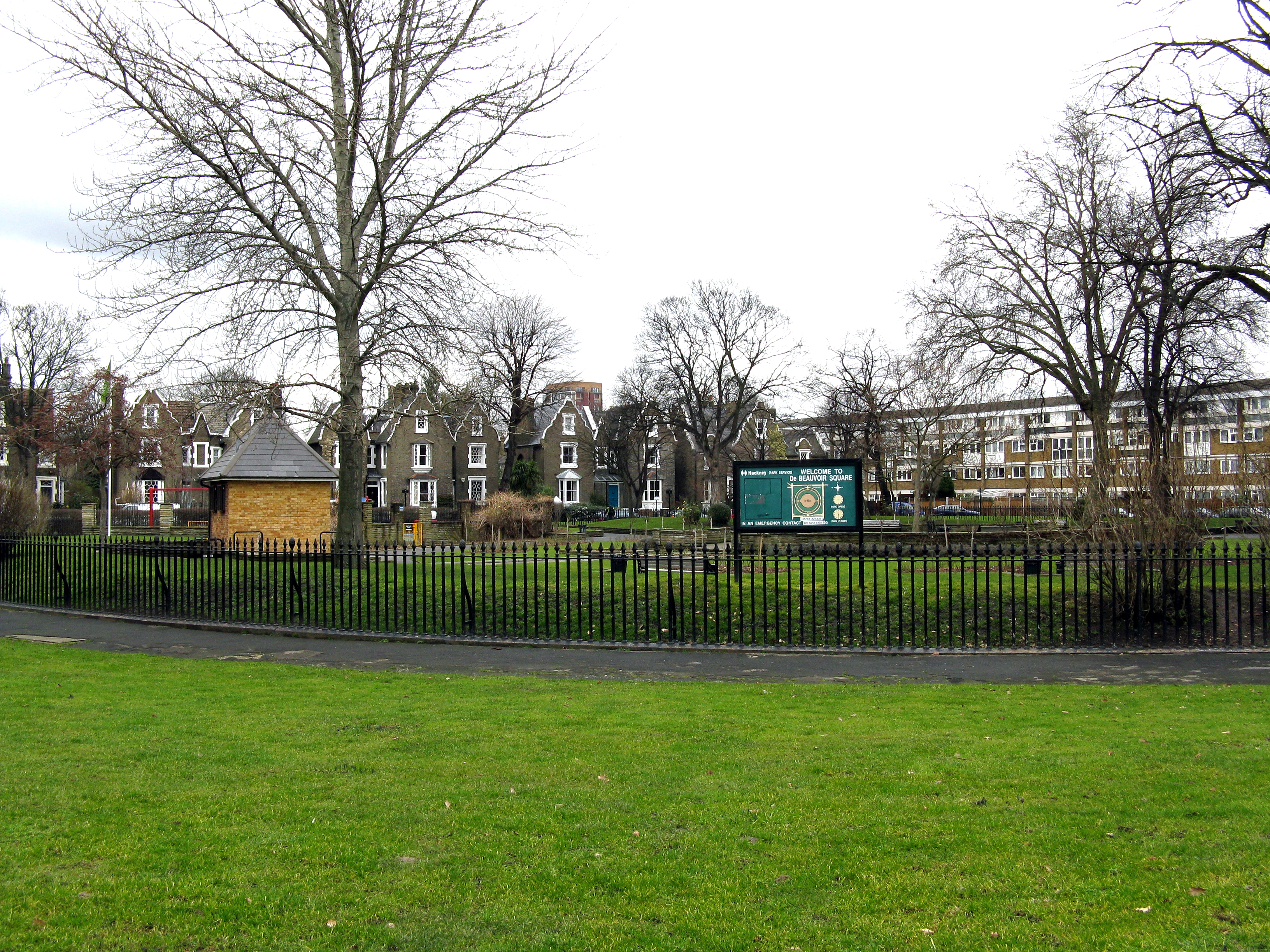 De Beauvoir Town: Looking across De Beauvoir Square Direction of view, north west.